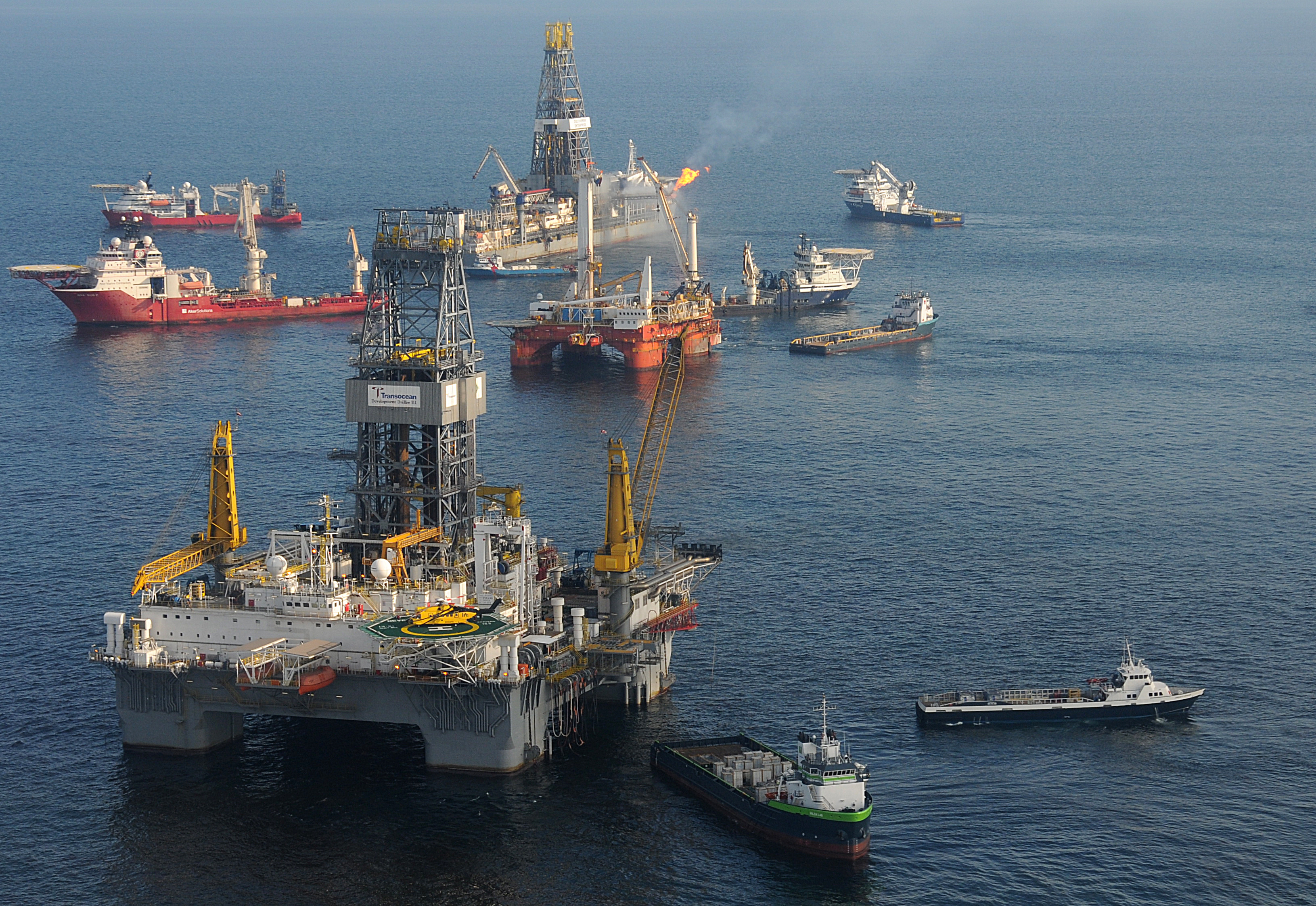 The mobile offshore drilling unit Development Driller III (near) is prepared to drill a relief well at the Deepwater Horizon site May 18, 2010, as the MODU Q4000 holds position directly over the damaged blowout preventer. While the drillship Discover Enterprise (far) continues to capture oil from the ruptured riser, preparations for the possible utilization of a "junk shot" or the "top kill" method are being made aboard the Q4000